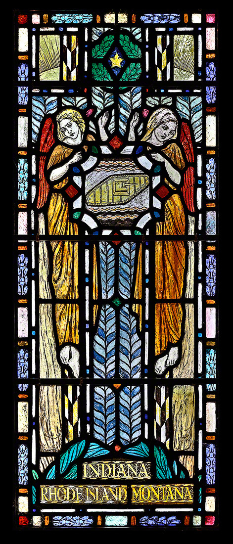 One of 18 stained glass lights designed by Reginald Hallward which illuminate the interior of the Chapel in the Brookwood American Military Cemetery dedicated to American fallen of the Great War.